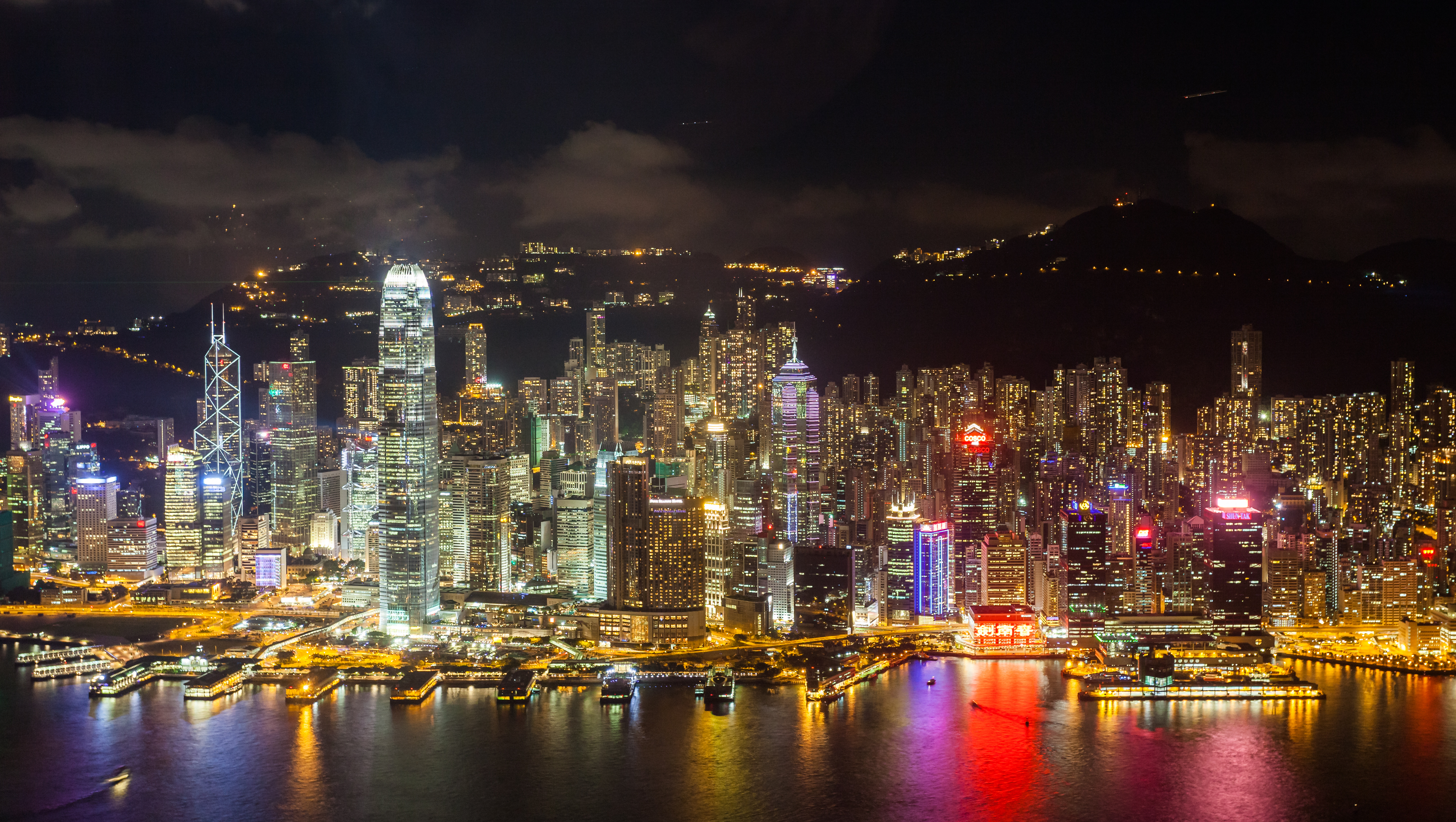 View of the Victoria Harbour from Sky100, Hong Kong